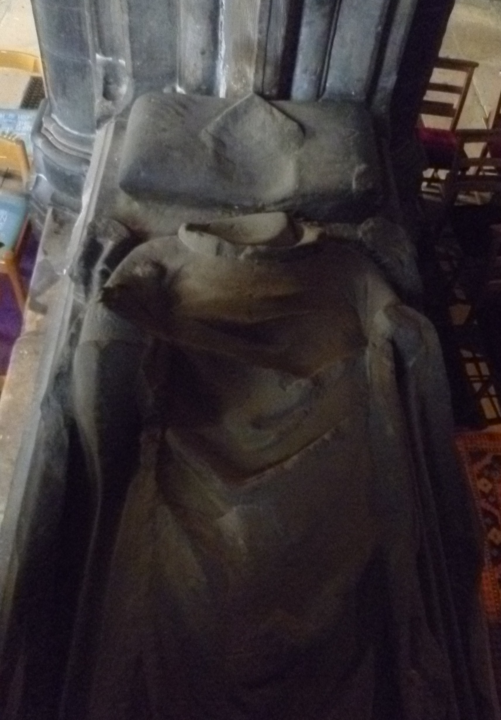 Headless effigy, believed to be that of Robert Wishart, Bishop of Glasgow and one of the chief patriots in the Scottish Wars of Independence. It may have been defaced during the Scottish Reformation.